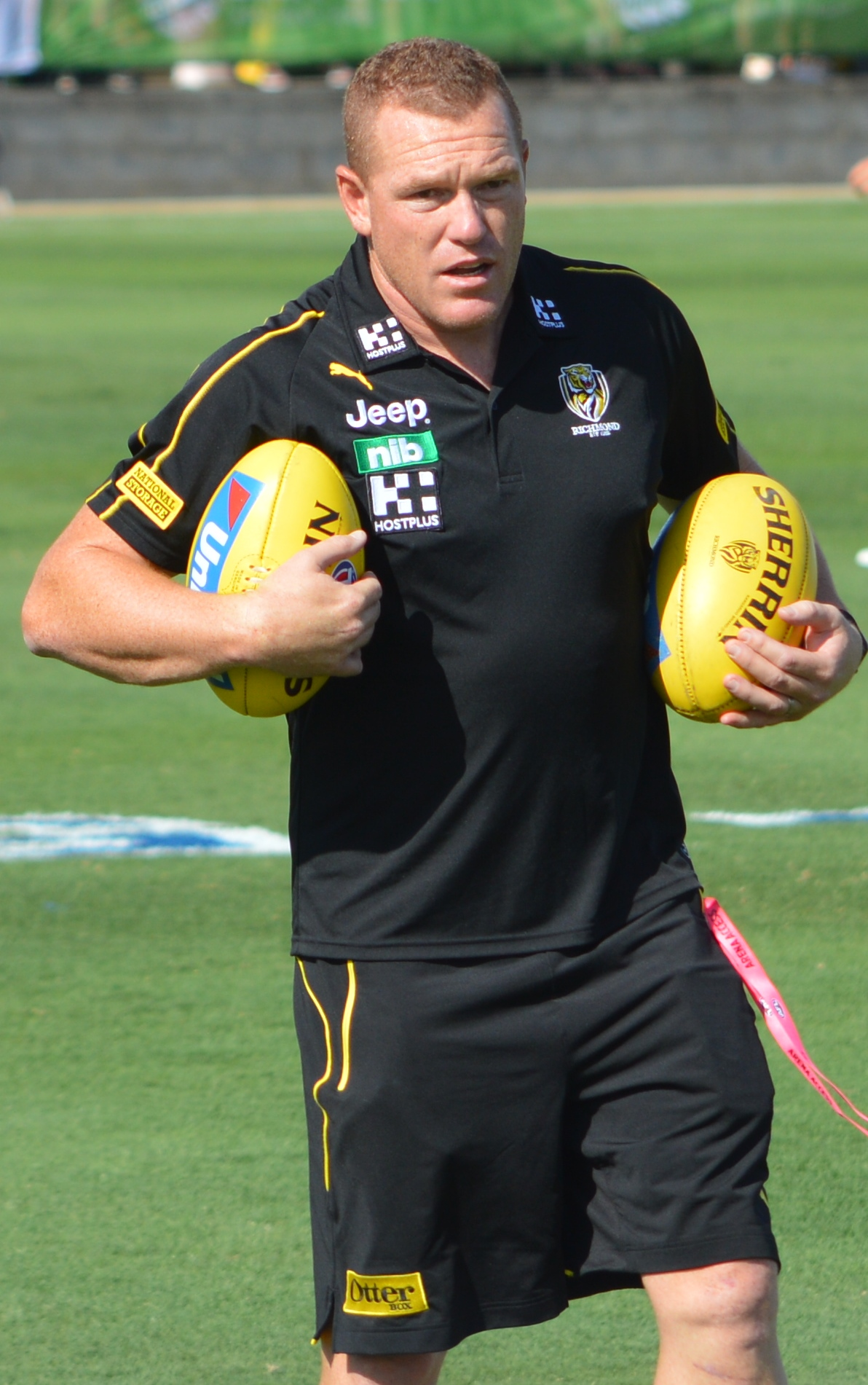 Justin Leppitsch Richmond during a JLT Community Series match against Melbourne in Shepparton in March 2019.